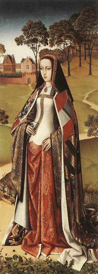 Juana La Loca in Flanders